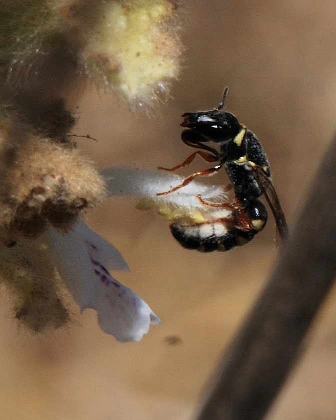 Ochreriades fasciatus Friese 1899, female collecting pollen from a flower of Ballota undulata, Judean Foothills, Israel, June 5, 2010.